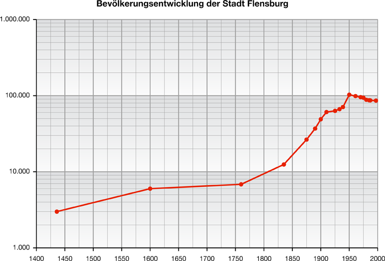 Flensburg's population development.